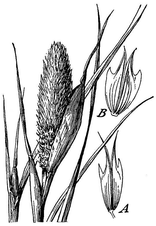 Phalaris paradoxa L. (hood canarygrass)